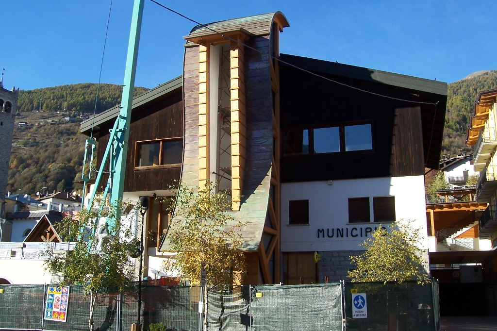 Town hall. Temù, Val Camonica.